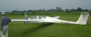 At Itakura Gliderport, Gunma, Japan. A popular tandem seat sailplane, Grob Twin III, JA2442, is being ground towed by a vehicle on the far left side, supported by two club members.